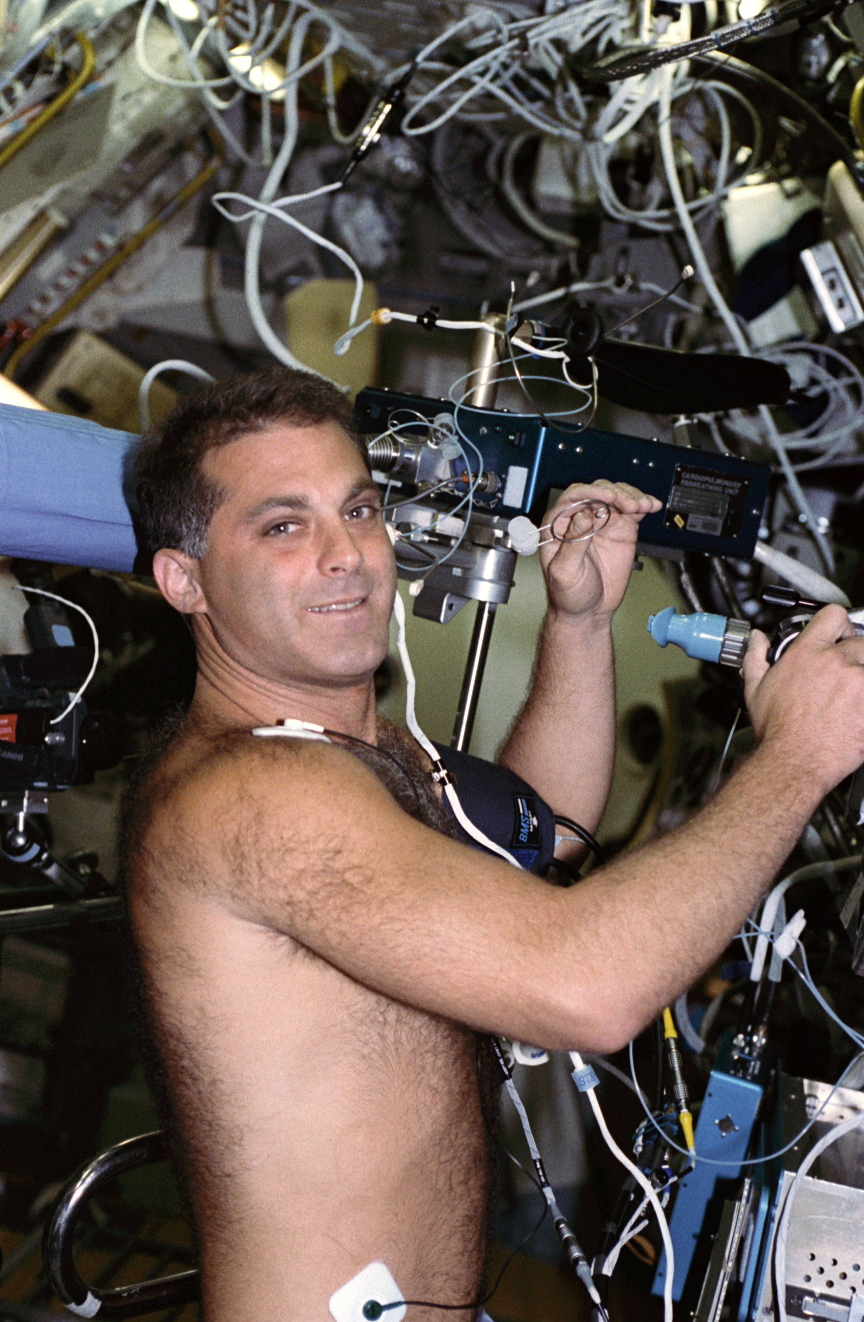 STS058-204-014 (18 Oct.-1 Nov. 1993) --- Astronaut David A. Wolf, mission specialist, participates in an experiment that investigates in-space distribution and movement of blood and gas in the pulmonary system. The data gathered during the two-week flight will be compared with results of tests performed on Earth to determine the changes that occur in pulmonary functions.